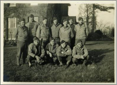 This photograph is part of the history of the 92nd Engineer Battalion and documented in the Battalion's records. The photo is the Officers of 1st Battalion after arriving in England, taken by CPT Hill, commander in 1 BN, 92nd Regiment. The Regiment was the first American unit in southern England and it is understood that they were subjected to considerable curiosity. Front Row: Lt. Schellberg (Neb), Lt. Welker (Ala), Lt. Swanson (Mich), Capt. Douglas (Mo), Back Row: Capt. Green (Minn), Major Small (Ill), Capt. Wrey (Texas), Lt. McDonald (Mass), Lt. Geary (Penn), Lt. Lahaye (Texas), Lt. Cordone (Mich) Other information This photo is significant as it is visual representation of the history of the Battalion. Text alone would not suffice to describe the officers during World War II. With this historical photo, it clearly identifies the men who served in the unit and those who serve now in the 92nd Engineer Battalion can see who led the unit during the war.